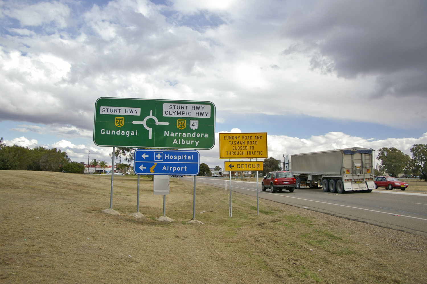 Sturt and Olympic Highway Intersection.